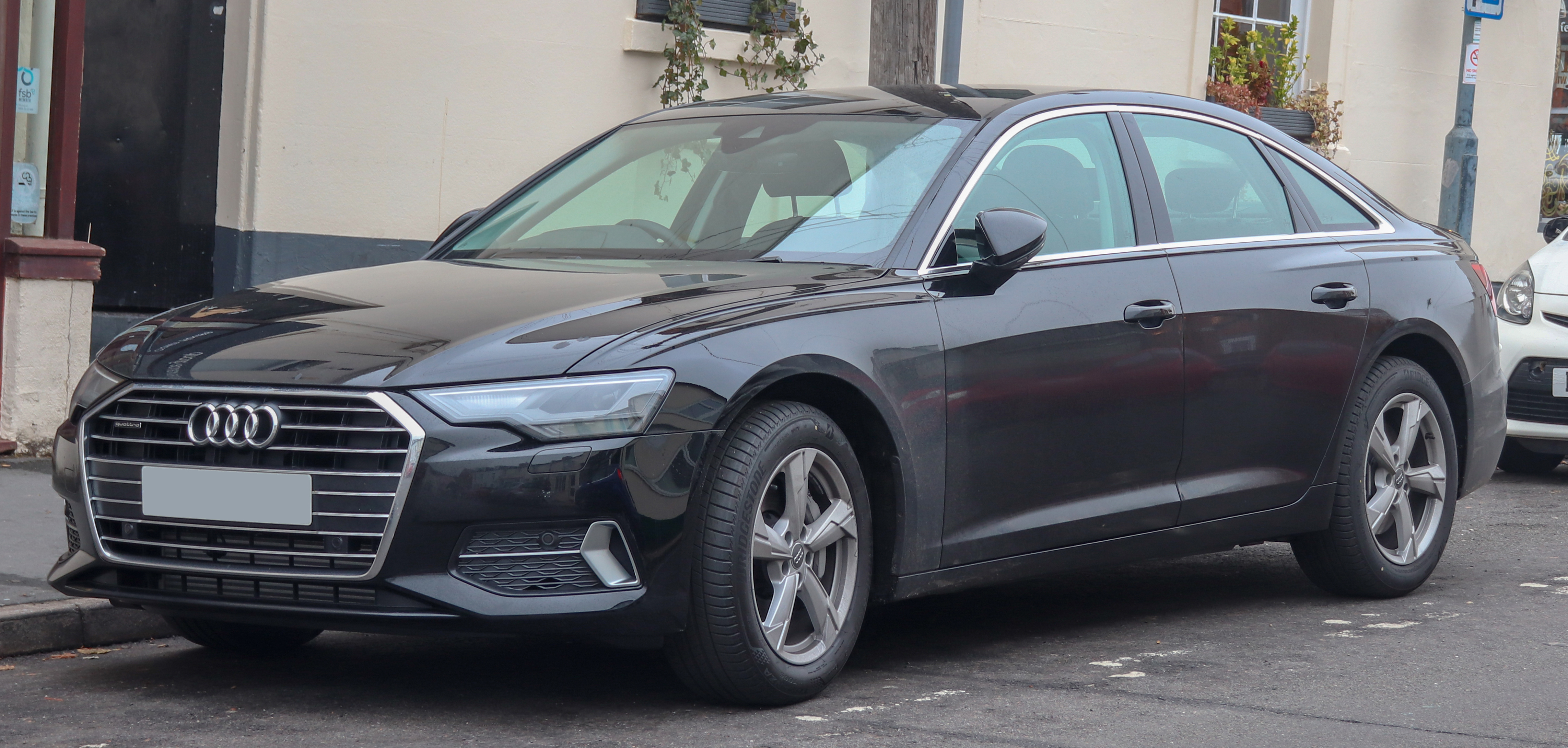 2018 Audi A6 TDi Quattro Front Taken in Leamington Spa